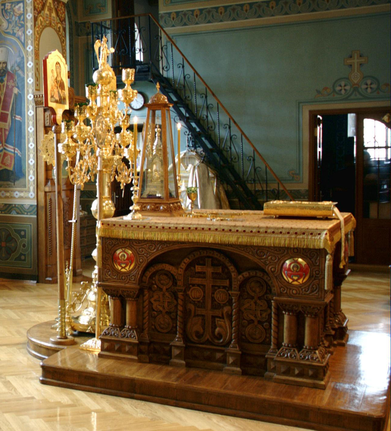 Main altar of Holy Trinity church in Ioninsky monastery